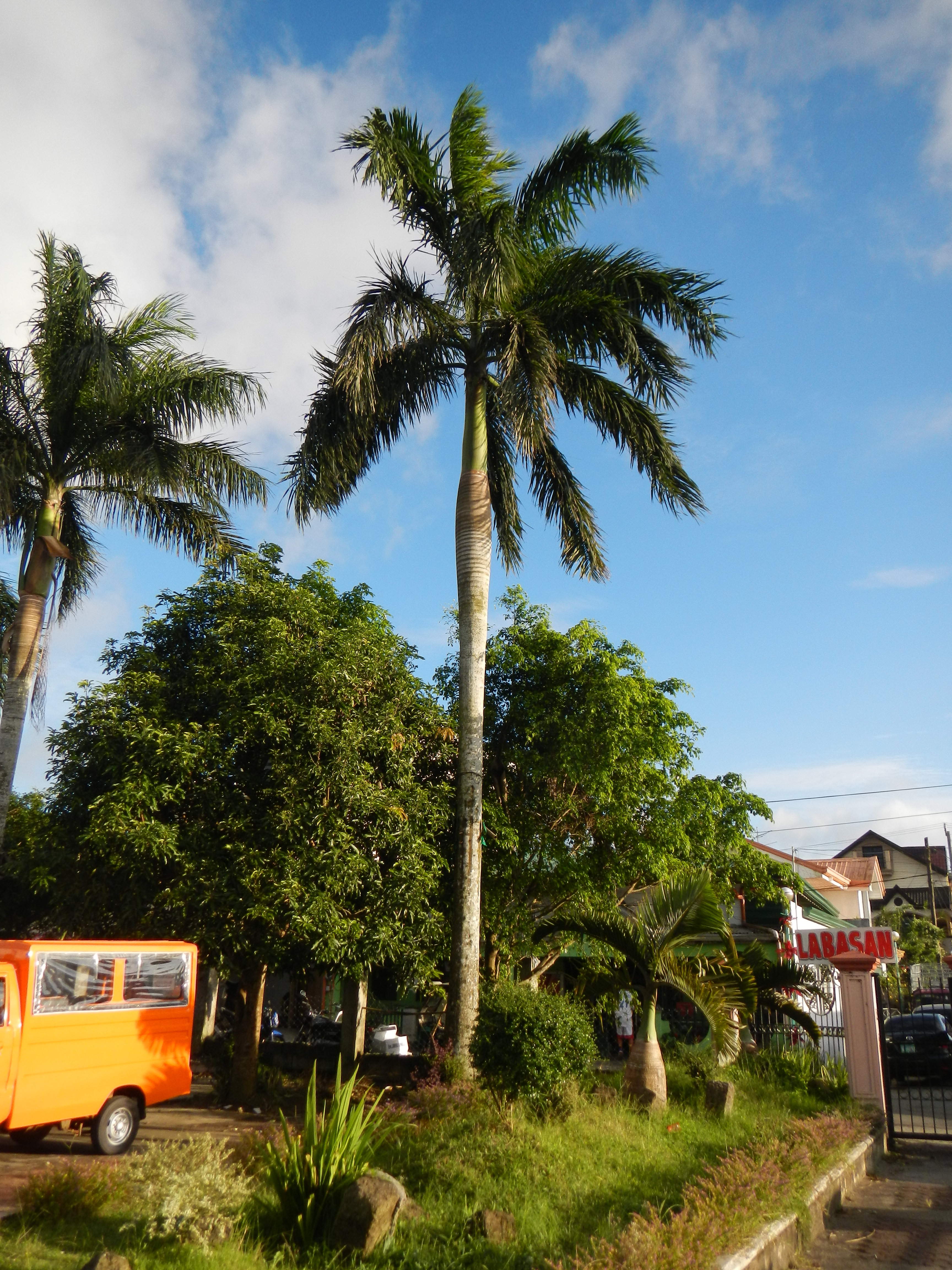 Upload Wizard photos of Amadeo Municipal Hall Complex (including the Flag pole, beside the Covered Court and in the middle of the Town plaza, the 1st and 2nd floor of the Town hall of - Amadeo, Cavite [1] at Poblacion, downtown, Town Proper, Centro, plus natives at the Church patio preparing for the Novena - in the Heritage church - Saint Mary Magdalene Parish Church of Amadeo, Town Proper, its very beautiful Patio and surroundings in Poblacion, Amadeo, Cavite [2] - (which belongs to the Roman Catholic Diocese of Imus[3] [4] [5] formerly District 5, Vicariate of Our Lady of Candelaria - now Vicariate of The Seven Archangels (Tagaytay City, Mendez, Indang, Amadeo, Alfonso, and General Aguinaldo)[edit] Vicar Forane: Rev Fr. Luisito C. Gatdula Vicarial Representative: Rev. Fr. Hermenegildo M. Asilo).